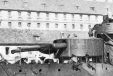 Photograph showing 305mm/45 Modèle 1906 guns of French battleship Danton. Dreadnoughts Danton (detail from Image:Dreanoughts Danton.jpg)